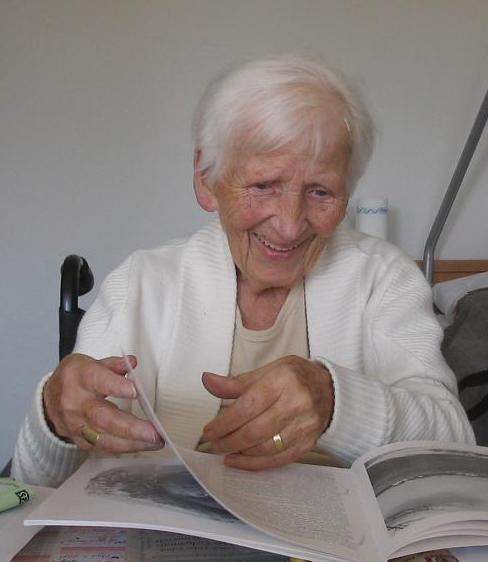 Portrait of the sculptress Katharina Szelinski-Singer, 20 september 2007 (89 years of age)